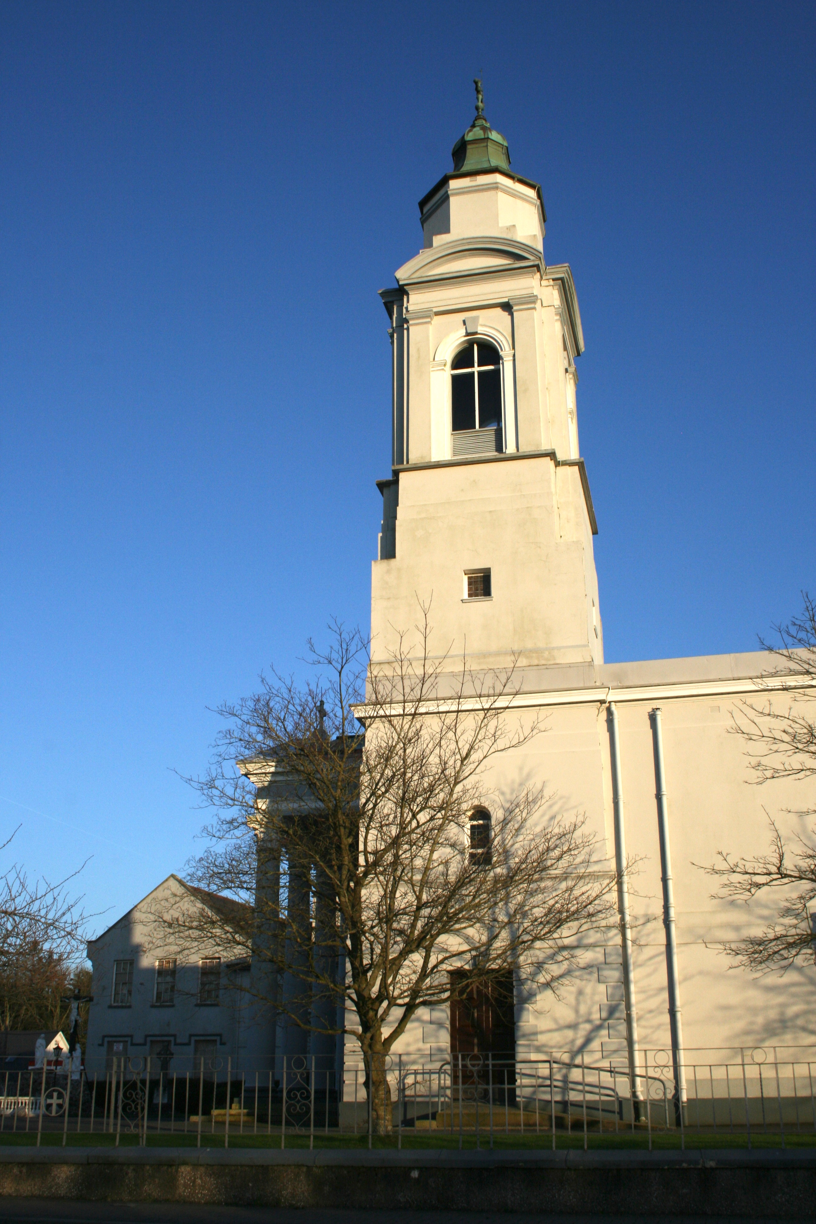 Catholic Church of The Most Holy Redeemer in Newport, County Tipperary, Ireland